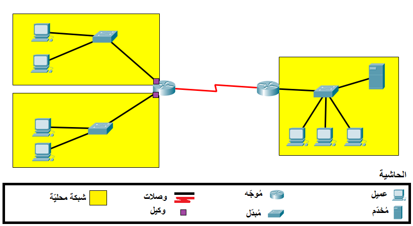 Terms of the topology of the Dynamic Host Configuration Protocol (DHCP).